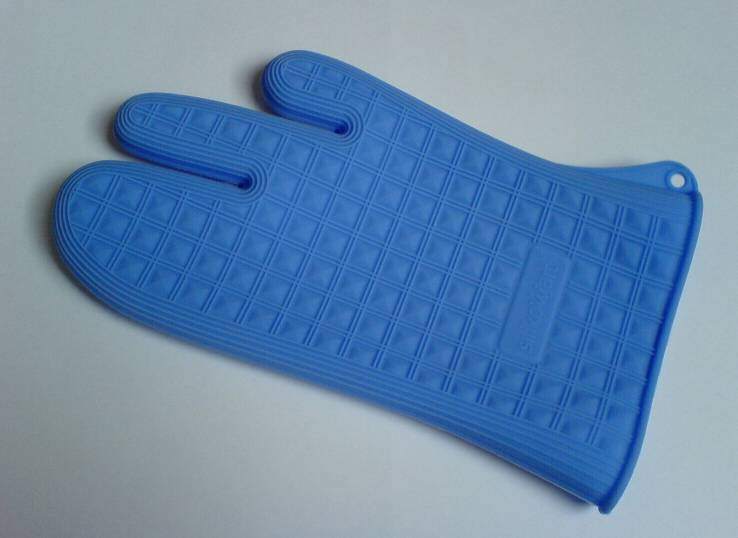 Silicon oven mitten